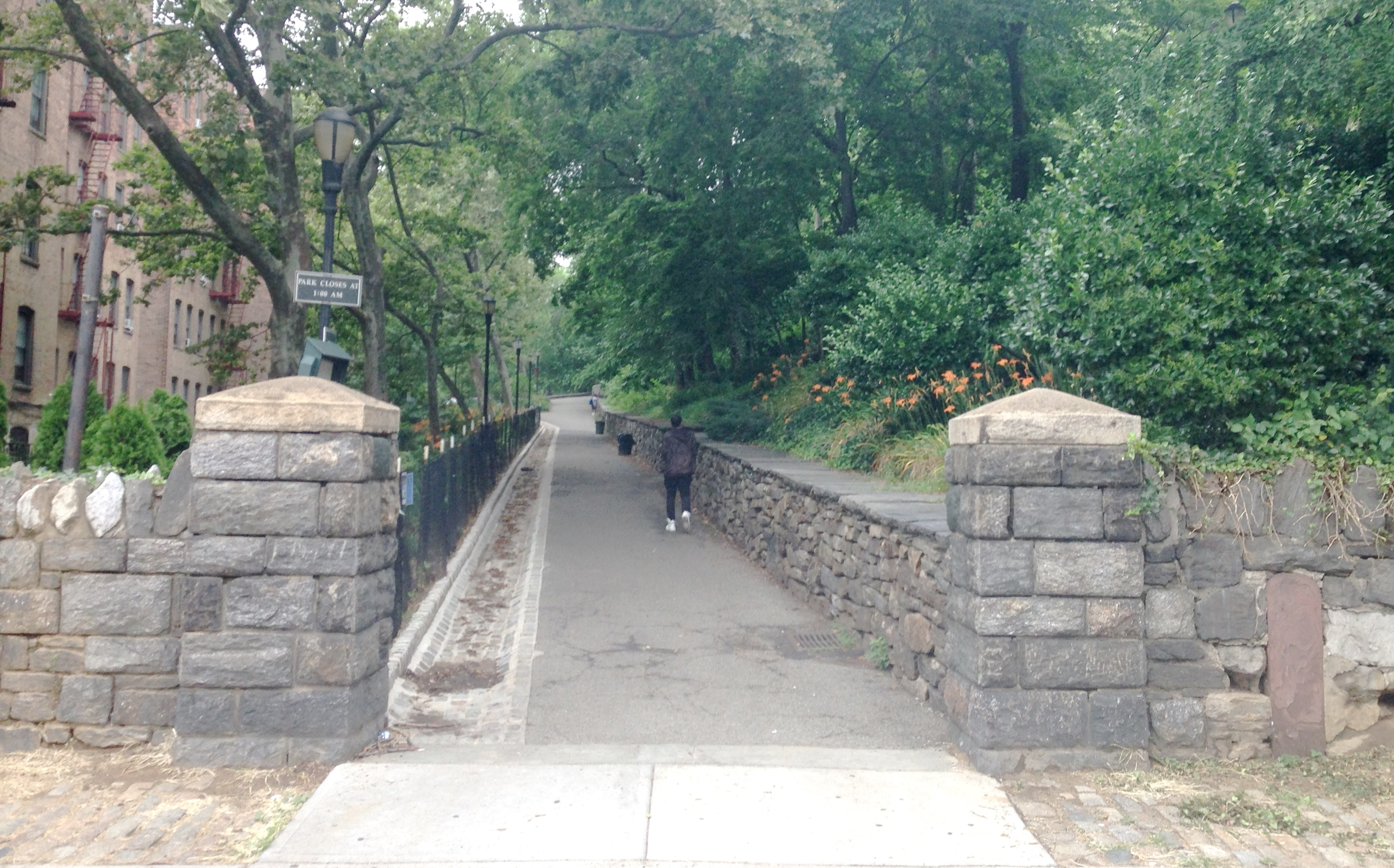 The entrance to Isham Park on Broadway between Isham Street and West 212th Street in the Inwood neighborhood of Manhattan, New York City. The Park was assembled from land given to the city by the Isham family from their estate and other purchases by the city in the 16 years between 1911 and 1927. The extent of the current park matches the original extent of the estate. (Source: Parks Dept: Isham Park Highlights